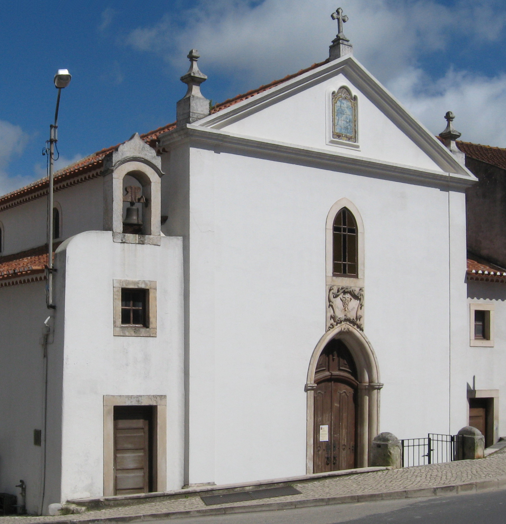 Alcobaça, Portugal, Mosteiro de Alcobaça, Coutos de Alcobaça, former county of the Abbey, Turquel, old city of the Coutos, Capela Jesus de Hospital 18.th century